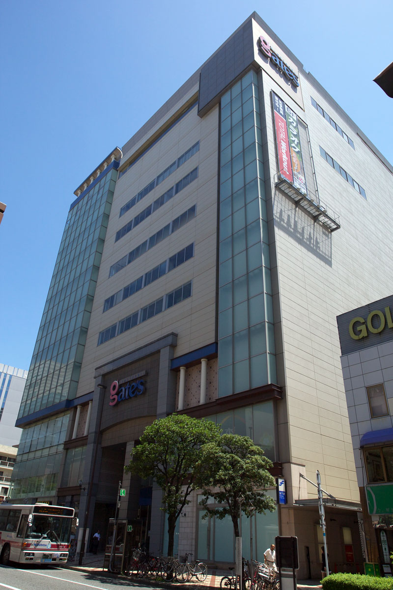 Stores building "gate's", in Fukuoka city, Japan.